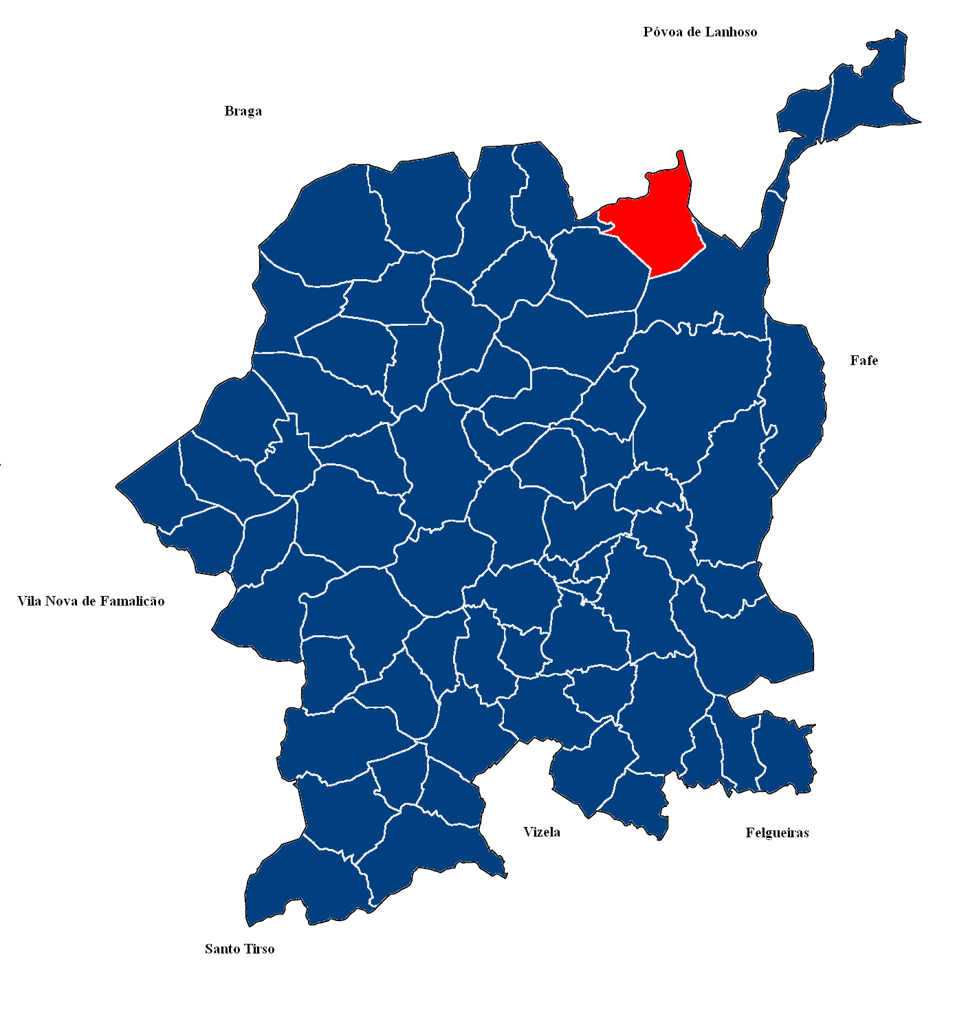 Map of Gondomar parish, Guimarães Municipality, Portugal